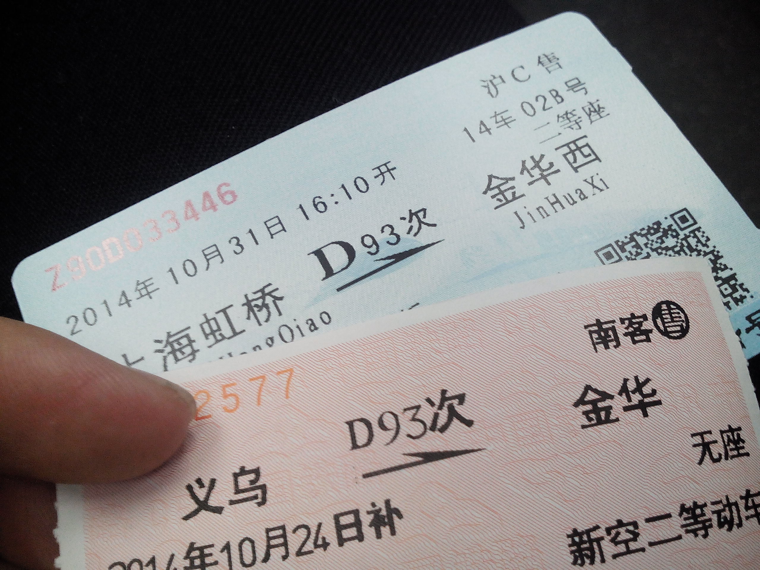 201410 Two kinds of ticket in China Railway System, with jinhua station which was soonly changed its name.